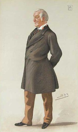 Sir John Eardley-Wilmot, 2nd Baronet by Leslie Ward